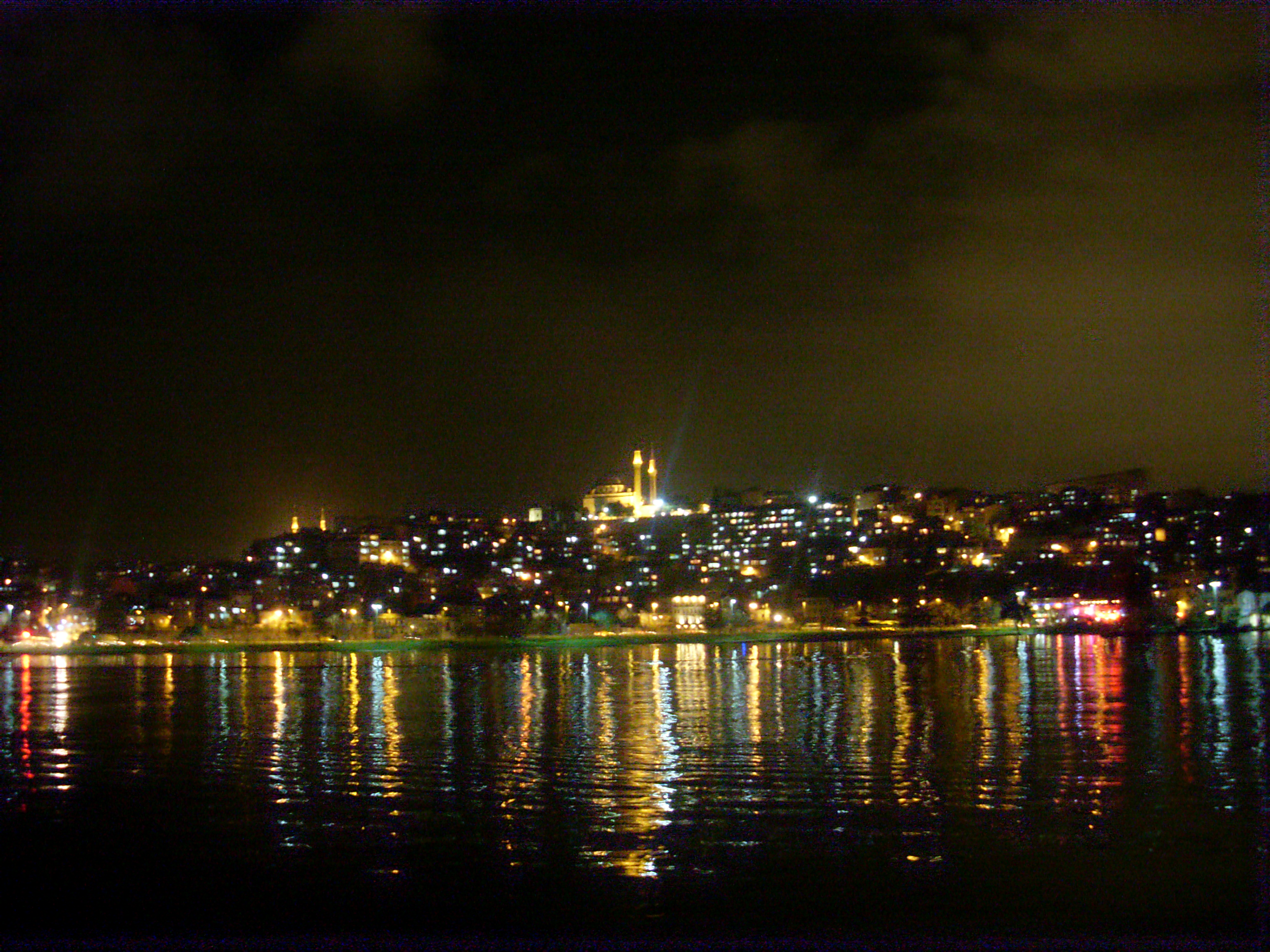 İstanbul - Yavuz Selim Mosque - Mart 2013